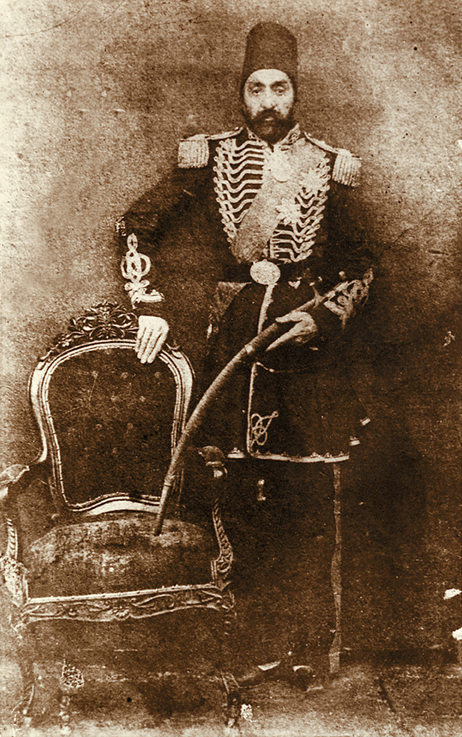 Bahram-Mirza Moezzedoleh Qajar